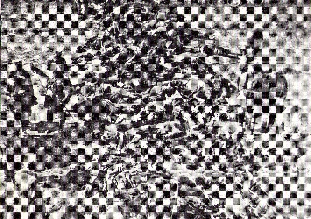 Victims of the 1918 Vyborg massacre at the Annenkrone fortification.